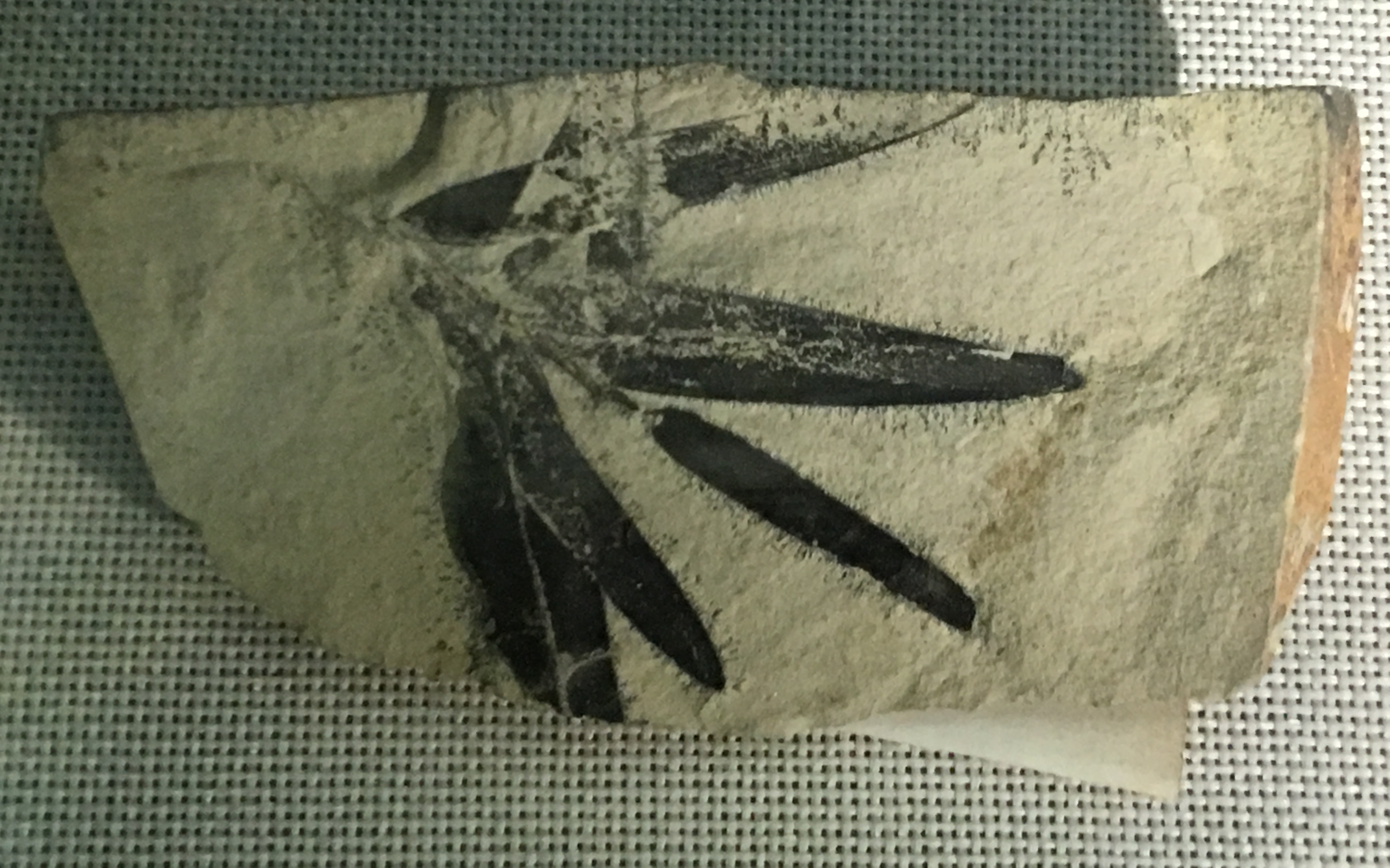 Fossile specimen at the Beijing Museum of Natural History, China.